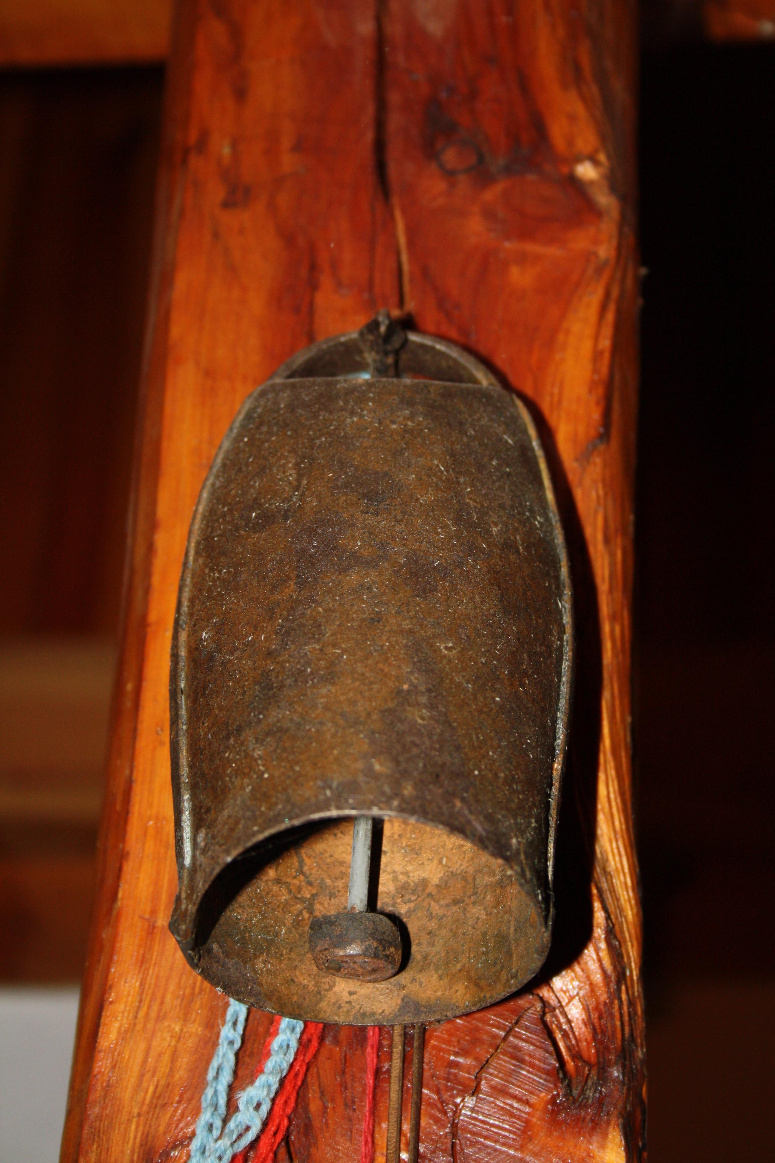 Cow bell on wooden plank.